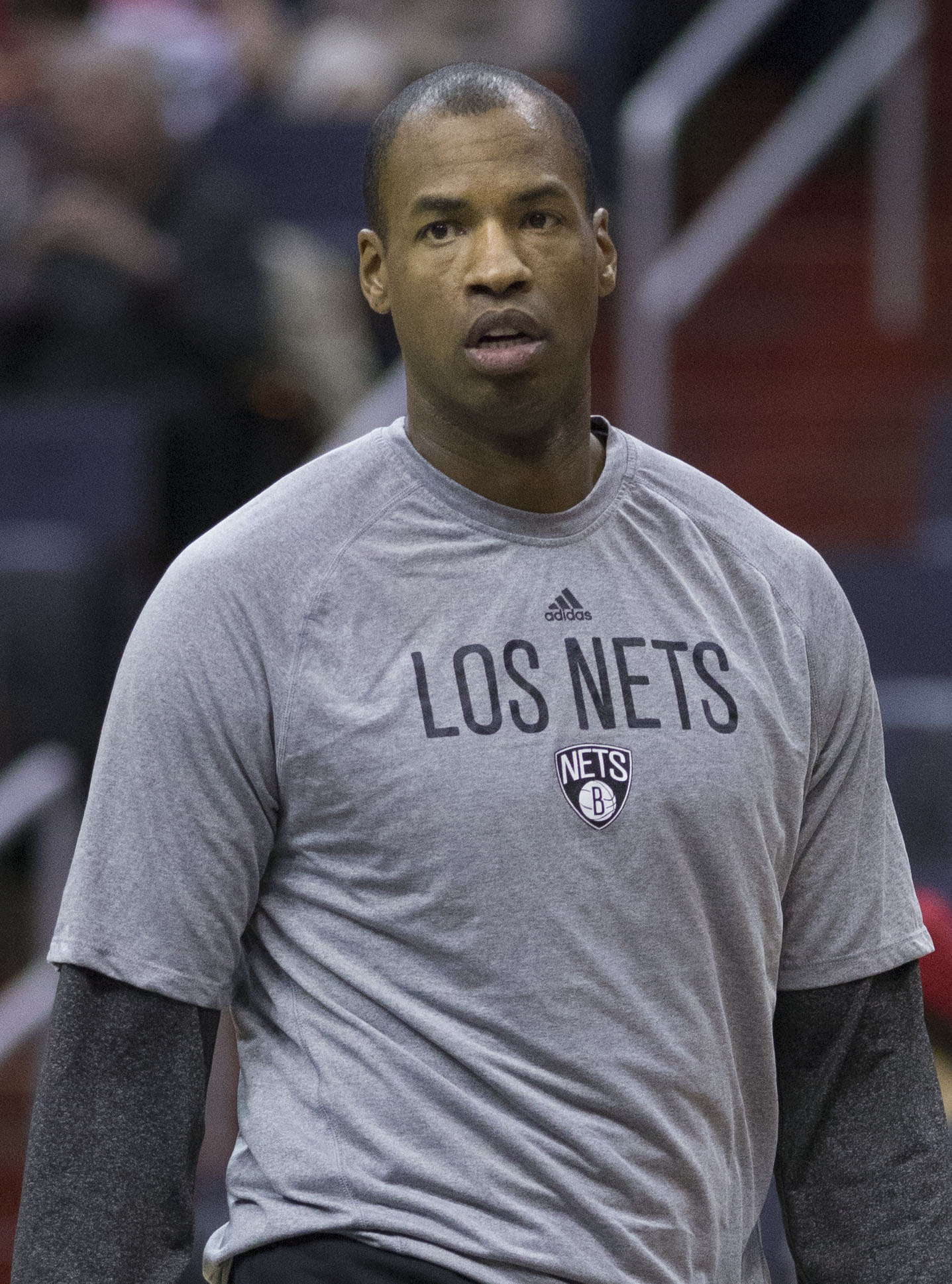 Nets at Wizards 3/15/14